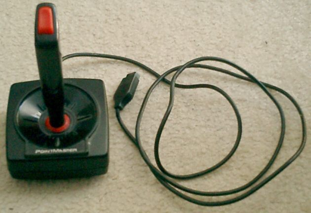 A 1980s one-button Atari-compatible joystick, The Pointmaster. One of the first third party controllers for the Atari 2600.